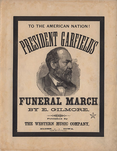 President Garfield's Funeral March" by E. Gilmore; published by The Western Music Company, Alden, Iowa, according to picture; store Web page states: "This 1881 sheet music, which was composed by E. Gilmore and bears a large picture of Garfield, was one of several similar pieces written to honor the fallen leader. However, it is one of the more difficult to find as it was published by a small music publisher (The Western Music Company) located in Ames, Iowa." Unless Alden is part of Ames, either the store Web page or the sheet music cover itself was incorrect on this point.